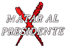 Logo de la campaña publicitaria de la película Nada x perder. El nombre de la campaña publicitaria (Matar al presidente), es en respuesta al eslogan de ésta: "¿Qué harías si por culpa de un político quedaras en la calle?".